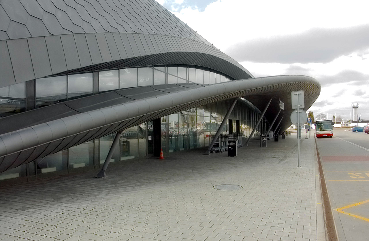 Departure terminal of Airport Brno, Czech Republic